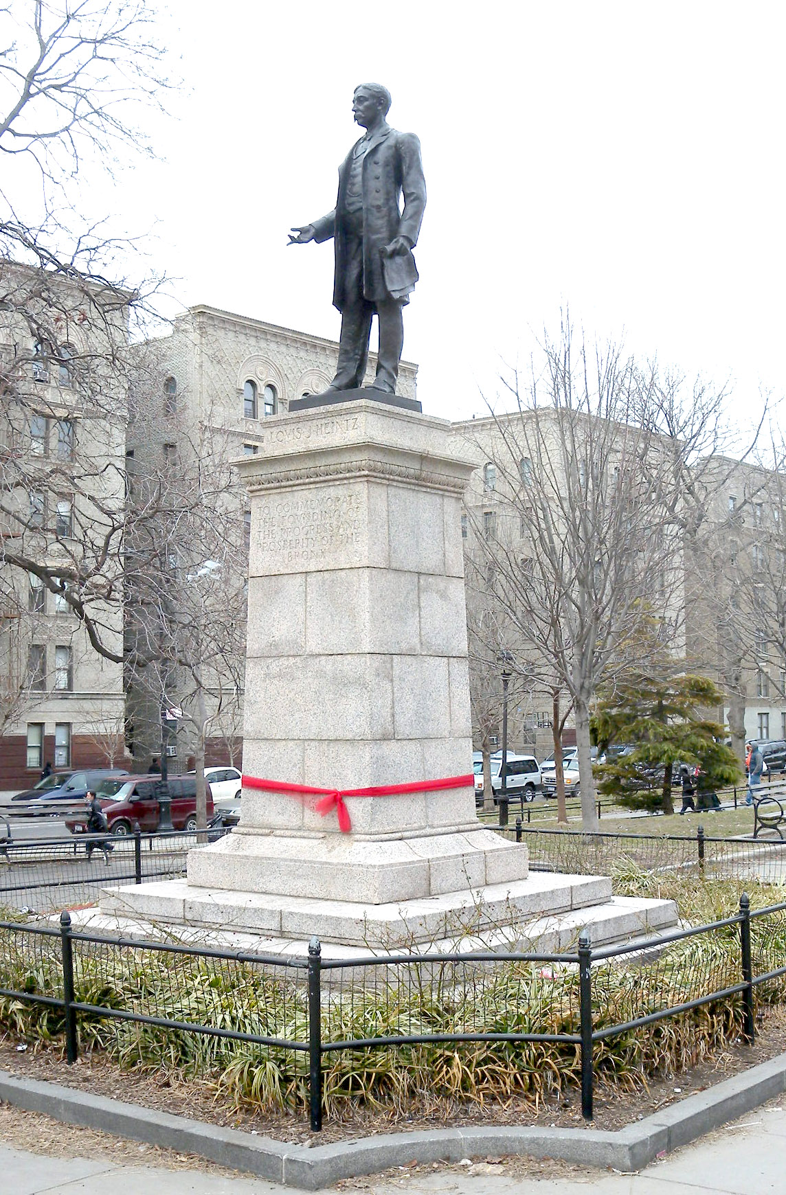 Looking north on a cloudy afternoon at statue of Louis J Heintz, Bronx Commossioner of Streets and promotor of Grand Concourse, in Joyce Kilmer Park.